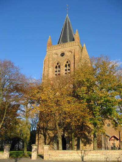 Church of Lampernisse, Diksmuide, West-Flanders, Belgium.